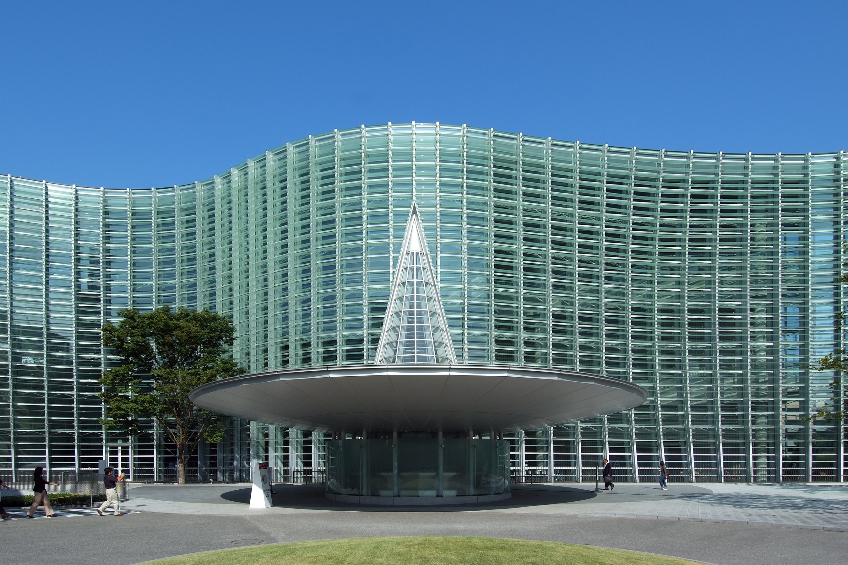 National Art Center, Tokyo at Minato-ku Tokyo Japan. Good Design Award 2008.